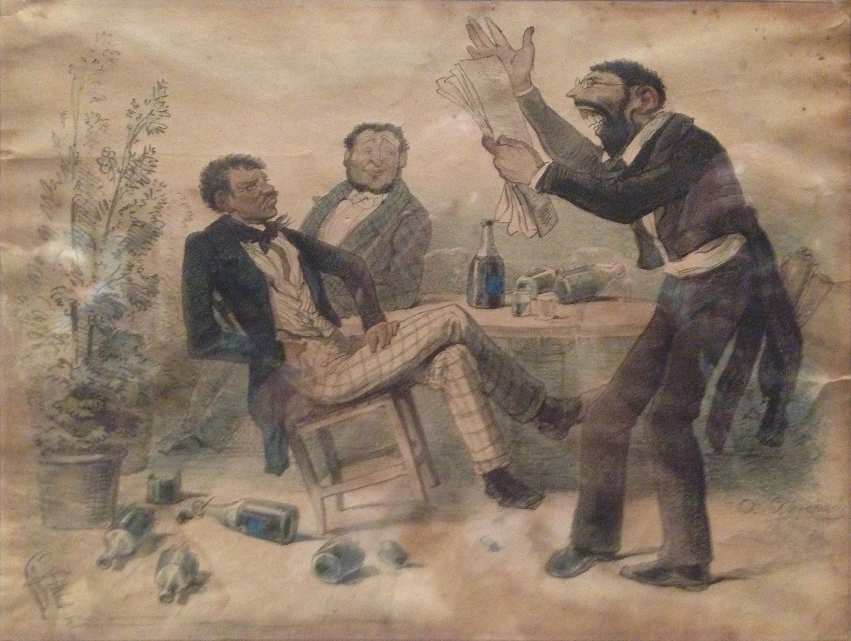 Champagne Drinkers: Cartoon on the Landscape Painter Bernhard Fries (1820–1879) in Rome Dec. 1843, Andreas Achenbach, Pencil, watercolour